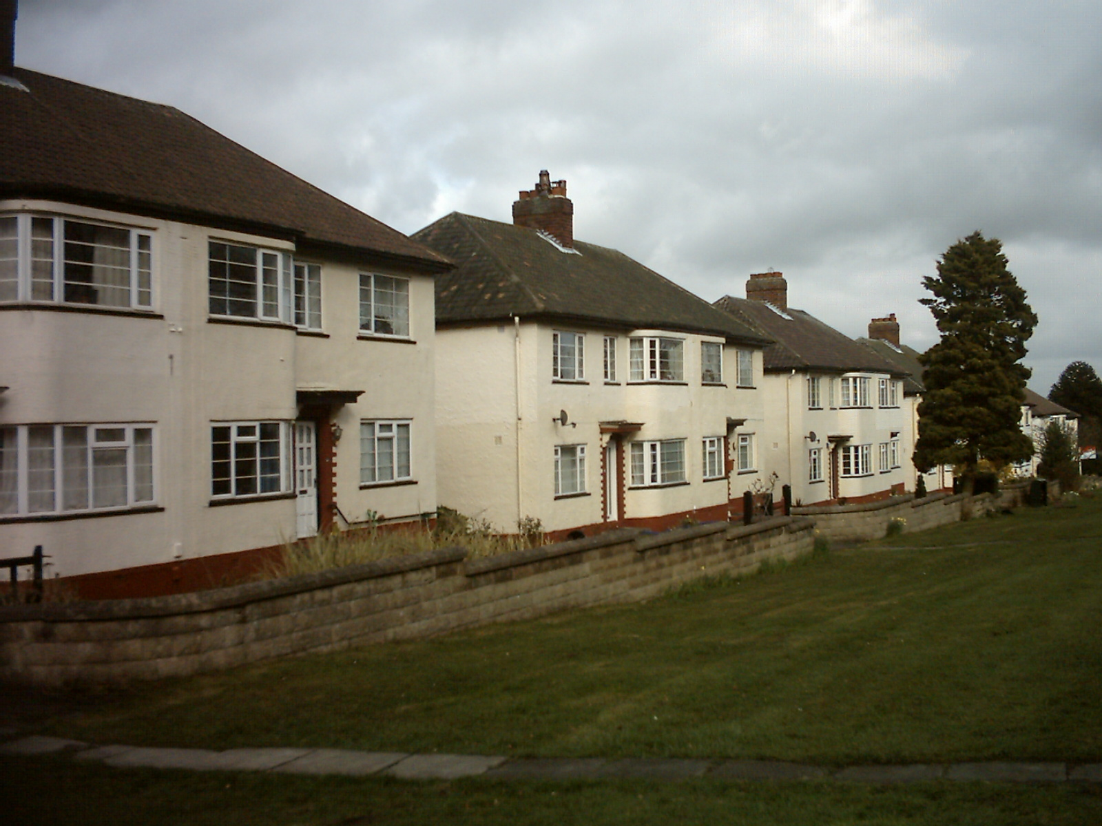 1930s flats in Lawnswood, Leeds, West Yorkshire